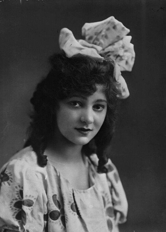 Gertrude Lawrence by Bassano Ltd half-plate glass copy negative, March 1917 Given by Bassano & Vandyk Studios, 1974 Photographs Collection NPG x30636